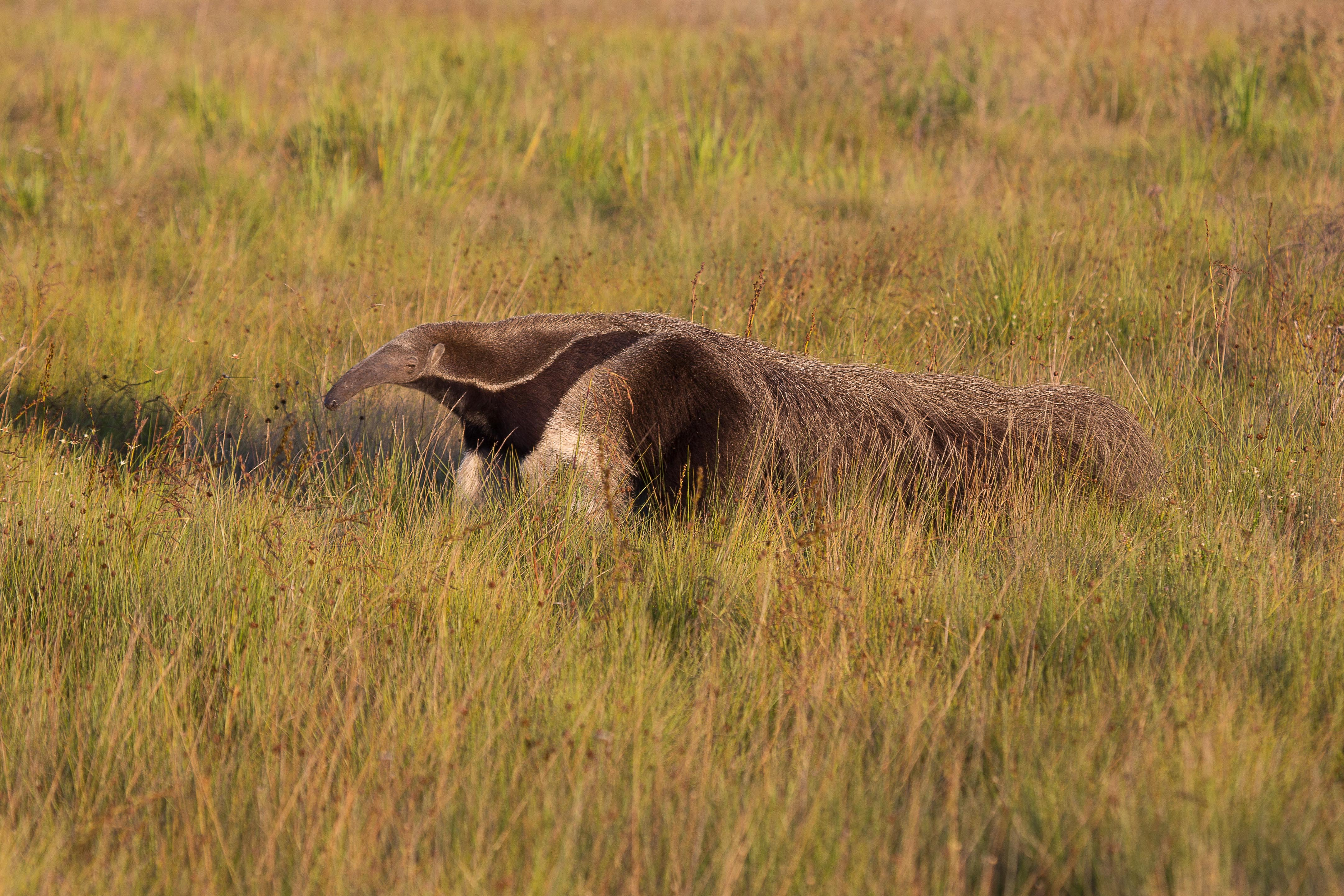 Giant anteater (Myrmecophaga tridactyla) at Parque Nacional da Serra da Canastra, MG, Brazil